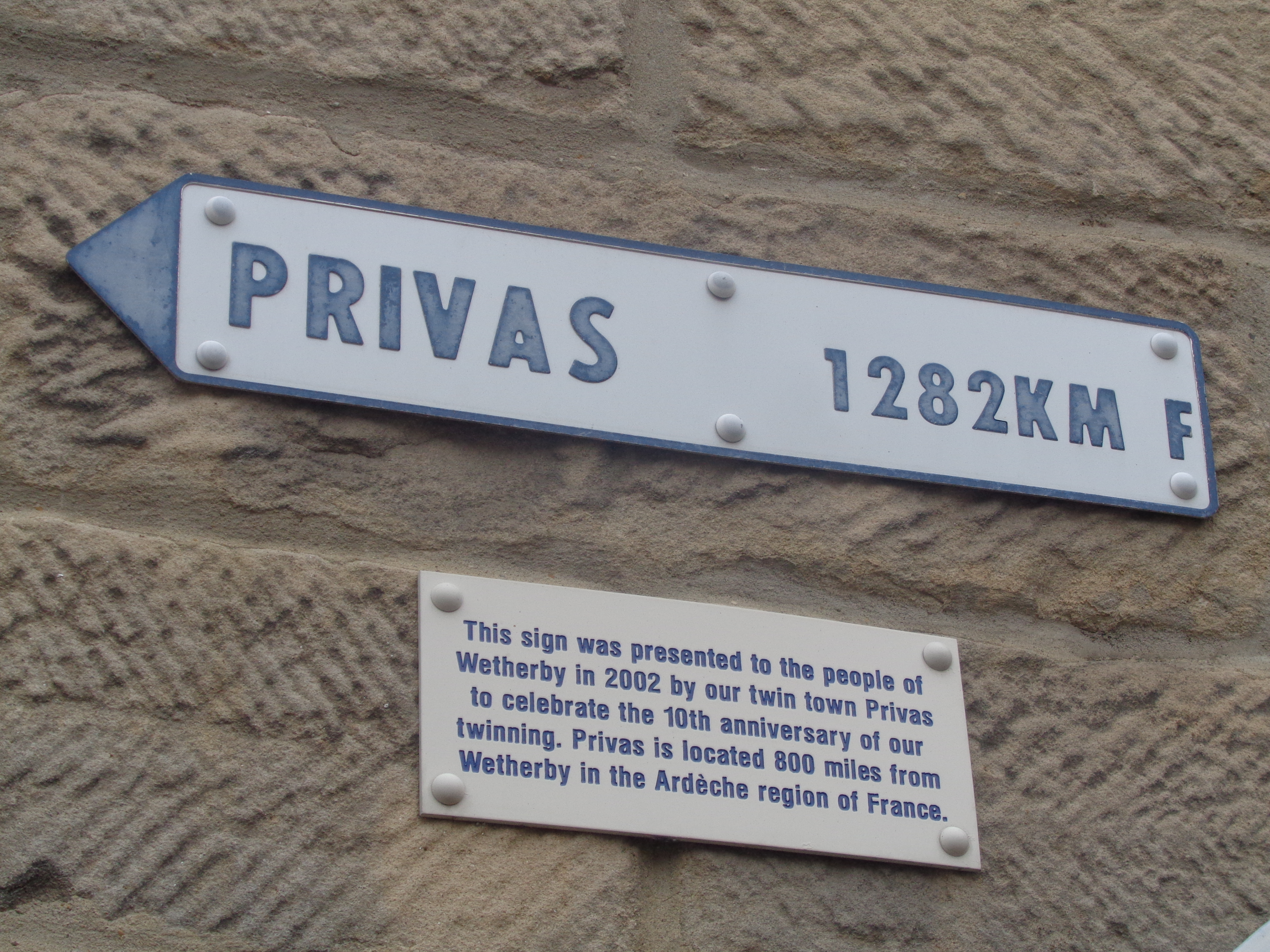 'Privas 1282km' sign on the town hall in Wetherby, West Yorkshire. Wetherby is twinned with the town of Privas, France. Taken on the evening of Sunday the 30th of August 2015.